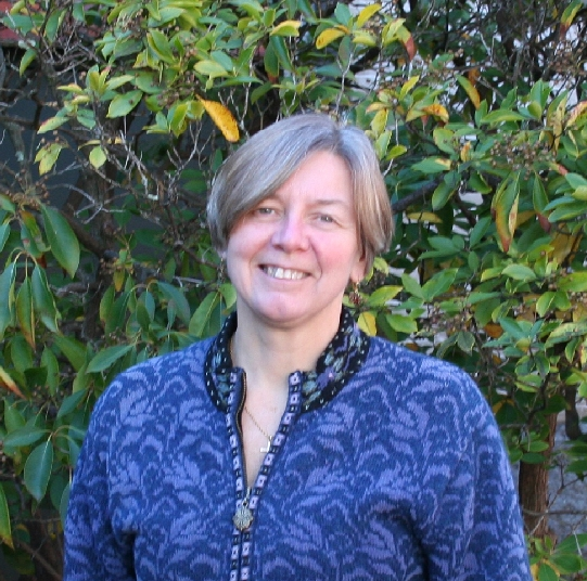 Belinda Wilkes at SAO, Cambridge, Fall 2012